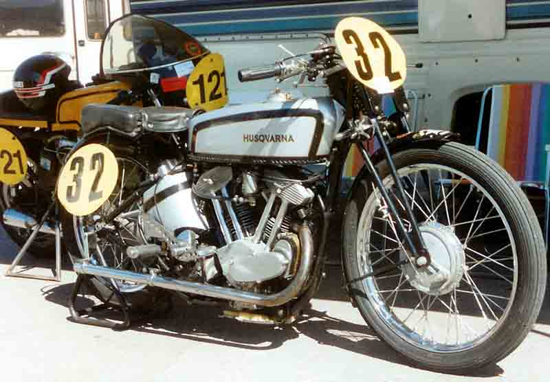 Husqvarna 500 cc TV Racer 1934 Replica